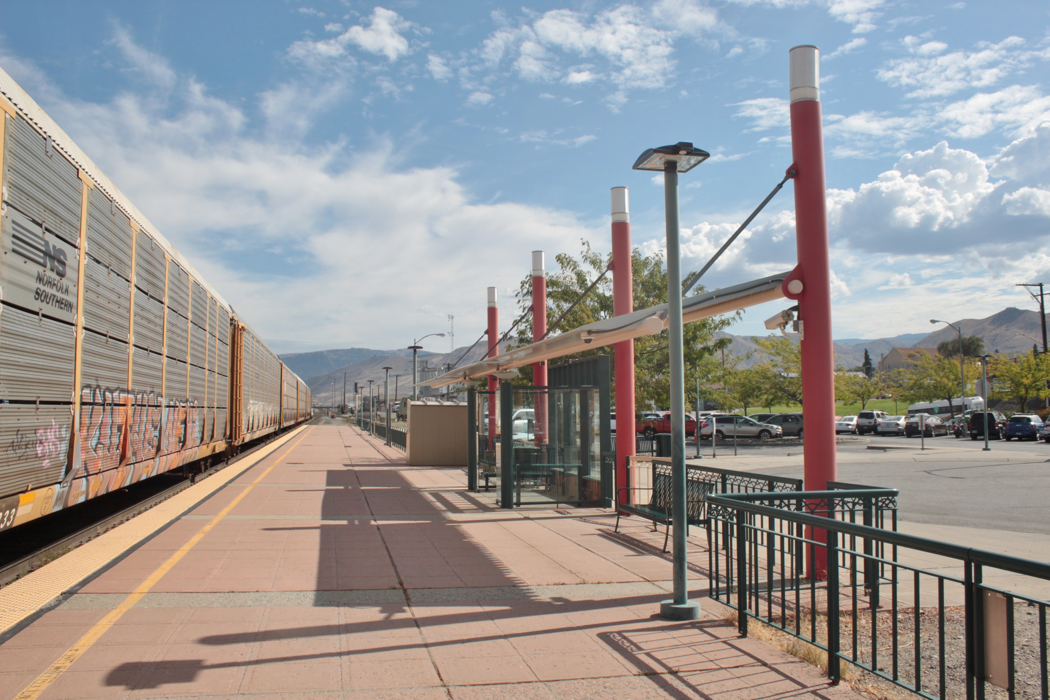 Looking south down the Amtrak platform at Columbia Station, a bus and train station in Wenatchee, Washington.